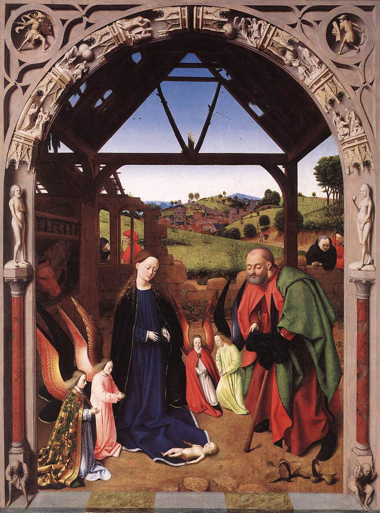 CHRISTUS, Petrus The Nativity Wood, 130 x 97 cm National Gallery of Art, Washington